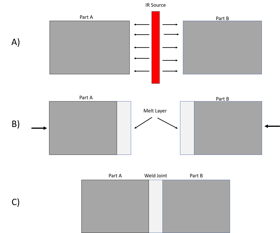 A) Melt surface with IR radiation B) Remove IR source and press parts together C) Cool melt layers to form welded joint